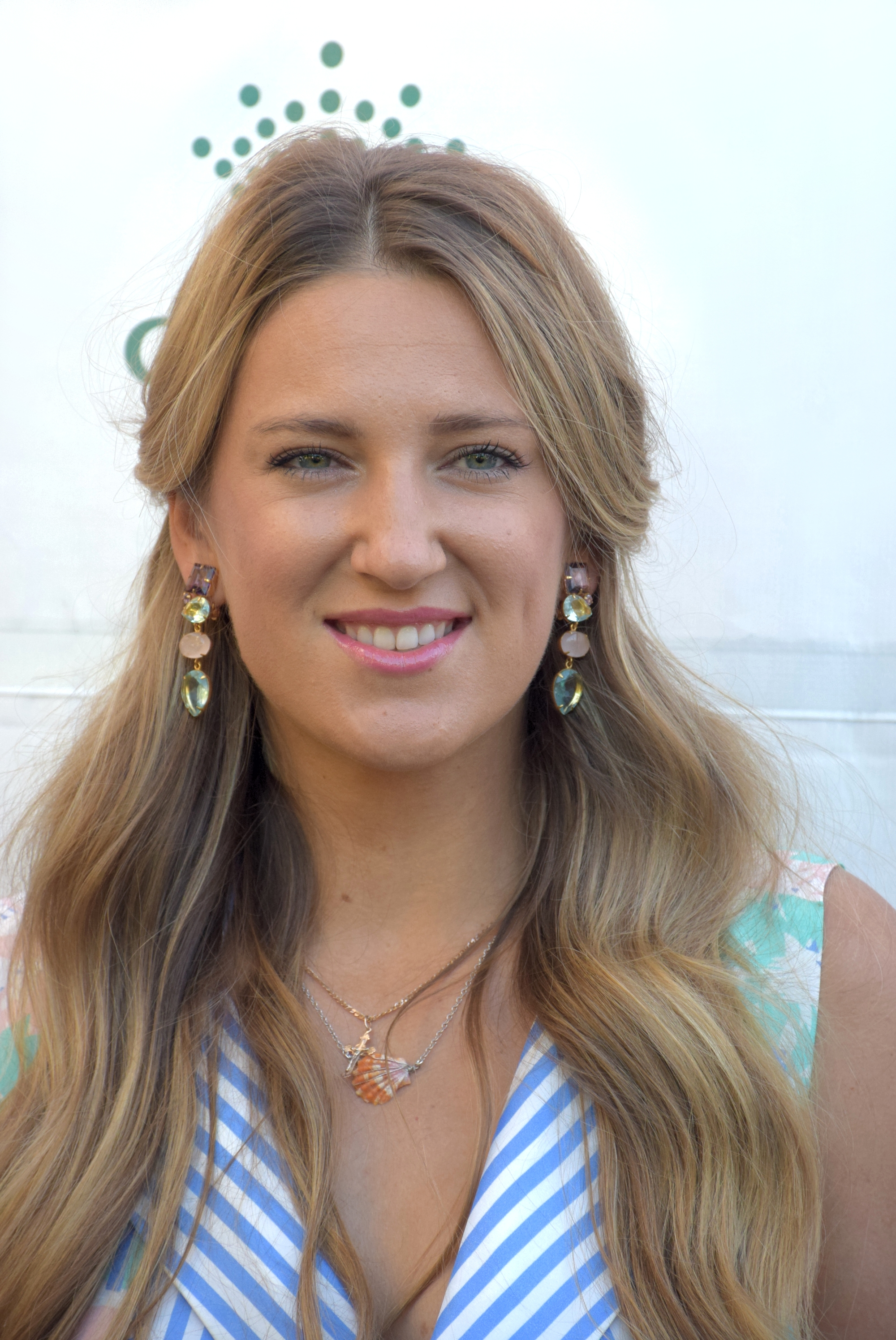 Victoria Azarenka (Belarus), Australian Open Players' Party